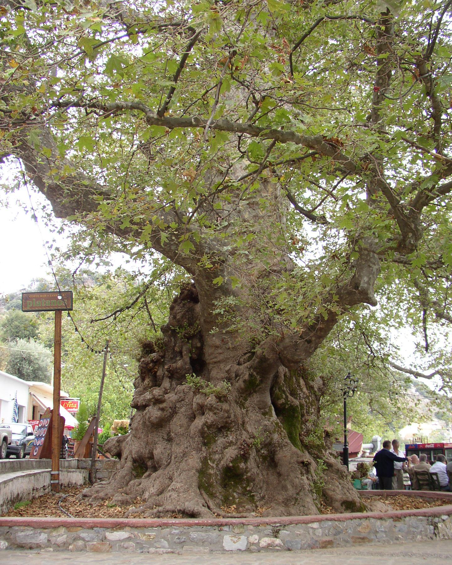 Platanus orientalis in Krási, Crete, Greece